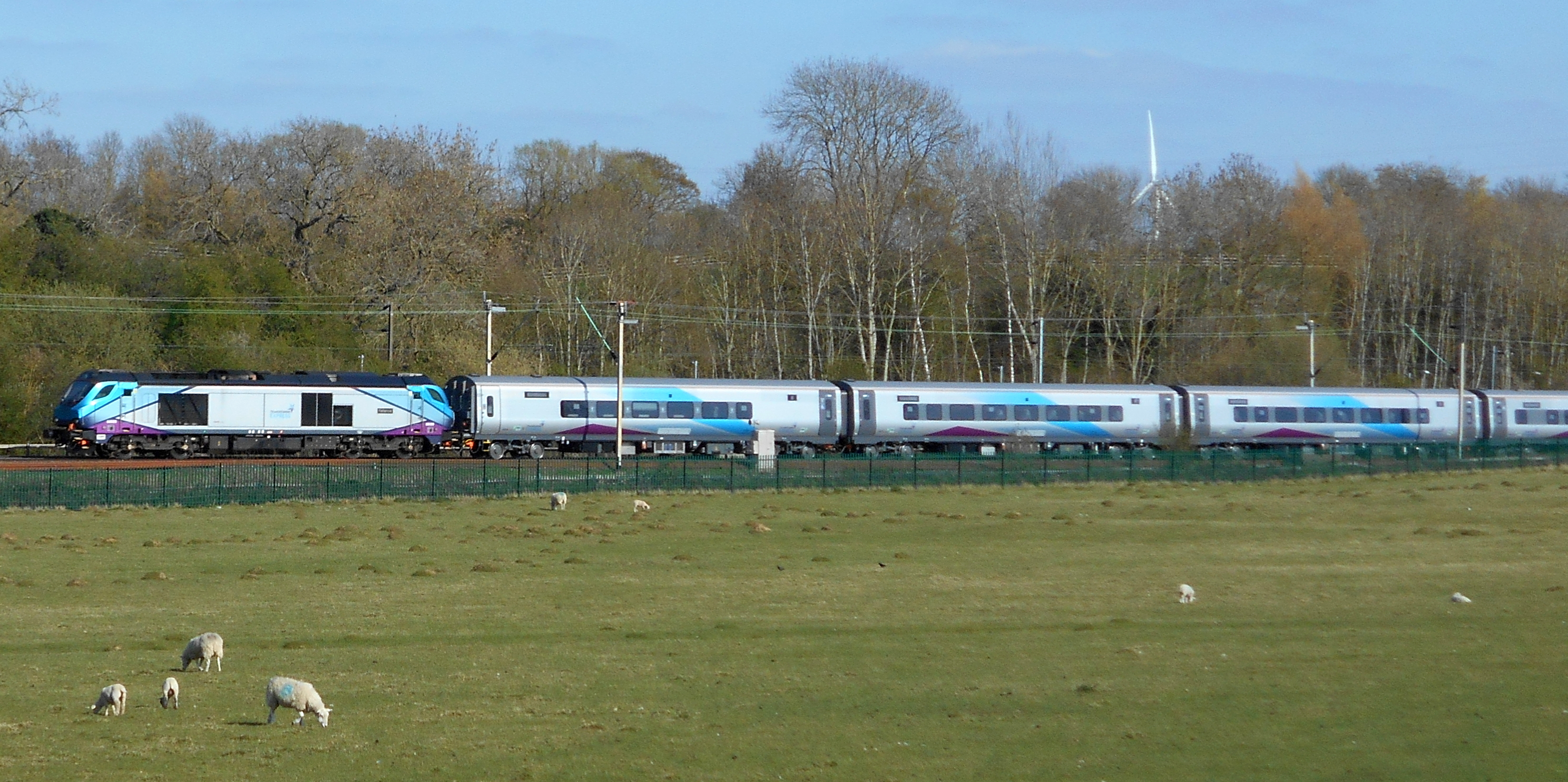 New TransPennine Express train with a Class 68 on the Northampton Loop between Rugby and Long Buckby. Not sure what this was doing in Northamptonshire, presumably on a test run or something.